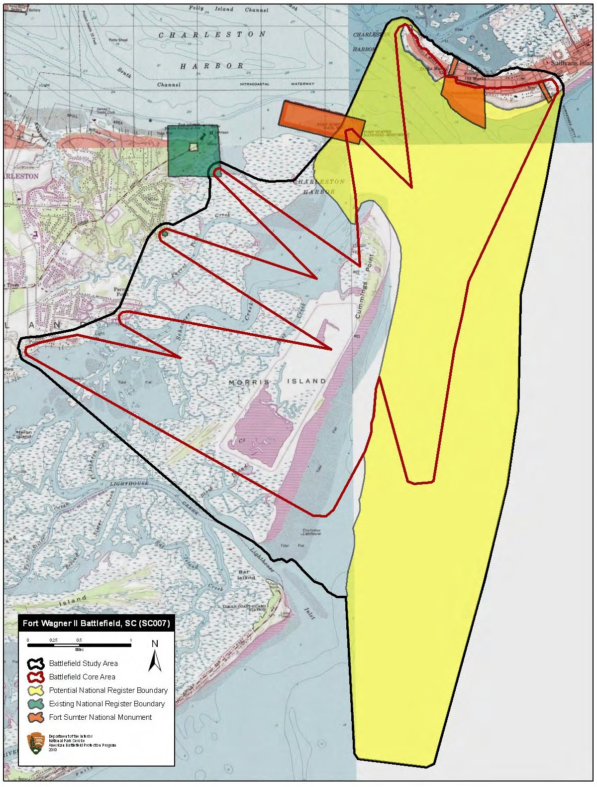 Map of battlefield core and study areas. The ABPP realigned the 1993 Study Area boundary to reflect the coastline of Morris Island as it was in 1863, and to include the locations of Confederate batteries on the southern edge of James Island. To represent the full extent of regional fighting during this battle, the ABPP also added the locations of Fort Sumter, Fort Bee, Fort Moultrie, and Fort Beauregard. The Core Area was revised to represent the firing patterns of Fort Sumter and the Confederate batteries on James Island (batteries Ryan, Tatom, Haskell, Cheves, and Simkins) in response to Federal siege operations on Morris Island. Additional Core Area modifications illustrate the fields of fire associated with Fort Bee, Fort Moultrie, and Fort Beauregard against US naval forces supporting the assault on Fort Wagner and Battery Gregg.